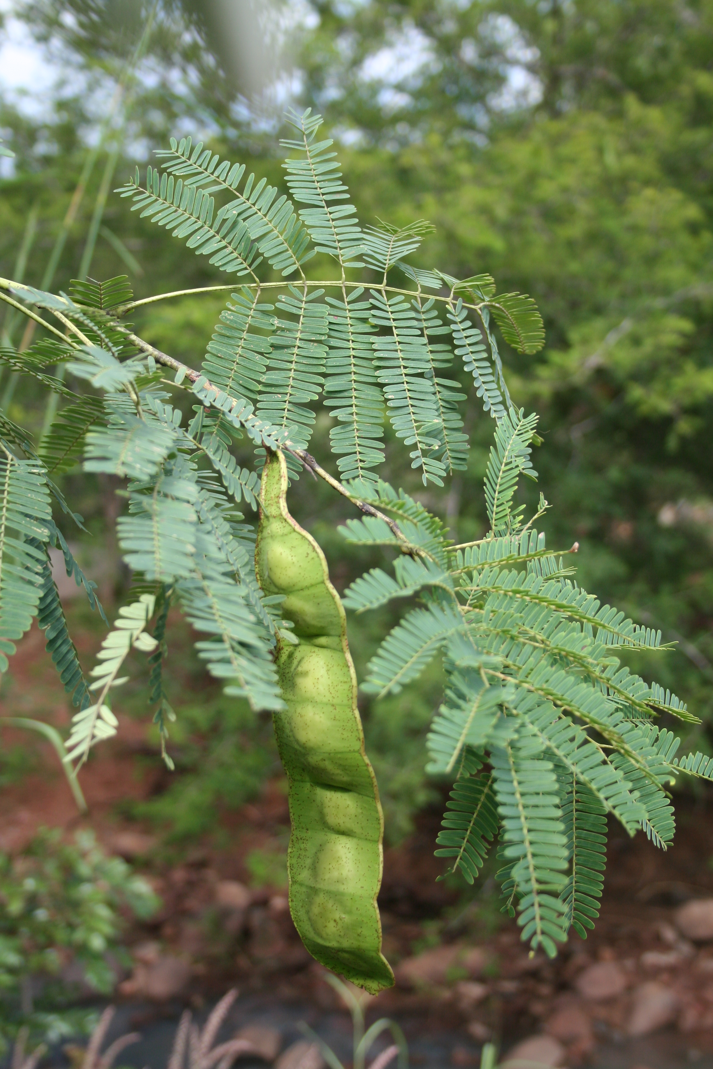 Entada abyssinica in SW-Burkina Faso